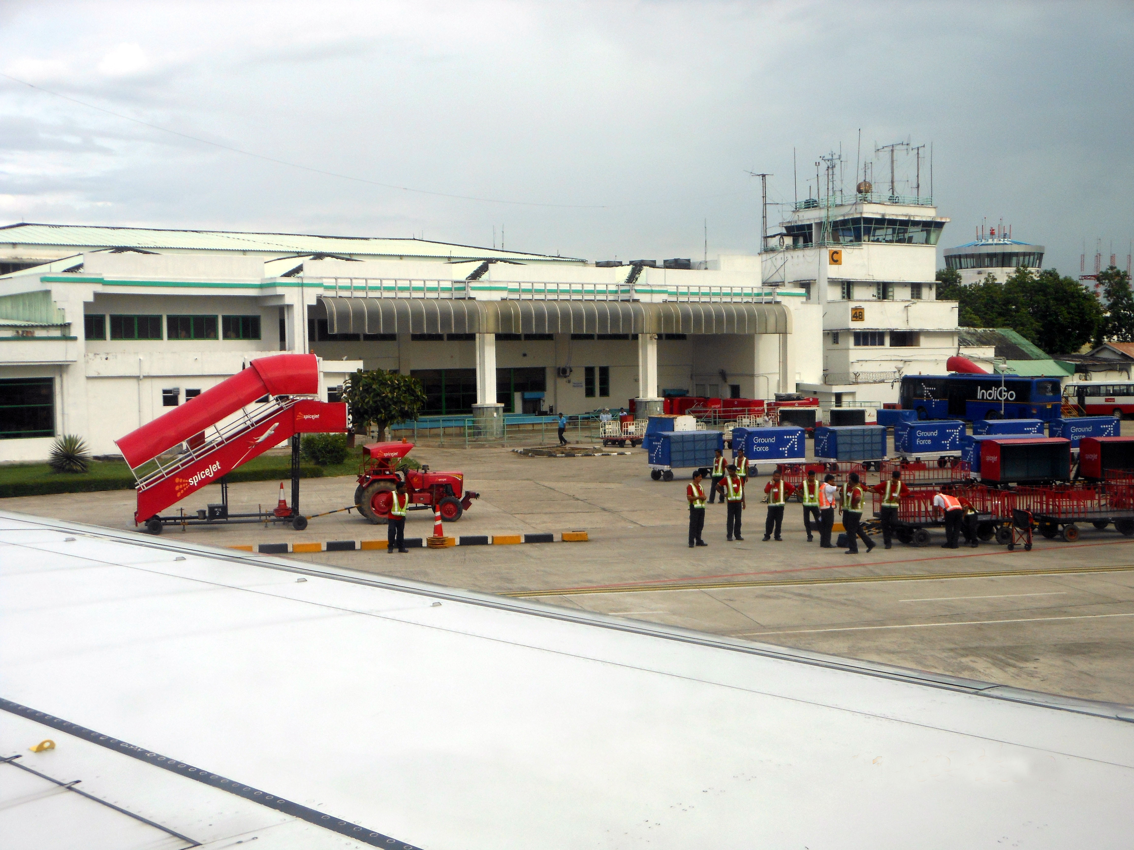 Its the rear view of Agartala airport which was clicked from an aircraft on 30.07.2012